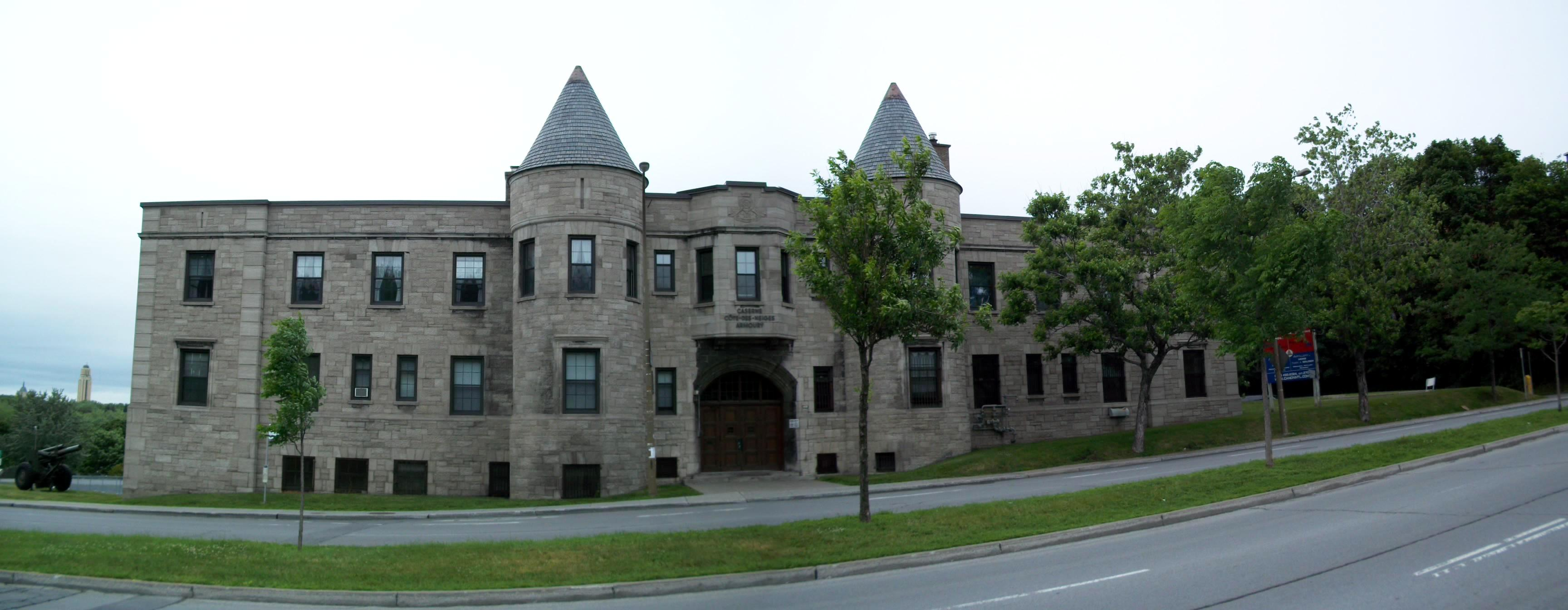 Côte-des-Neiges Armoury, Montreal, headquarter of The 2nd Field Regiment, Royal Canadian Artillery (2 RCA) and The Royal Canadian Hussars.